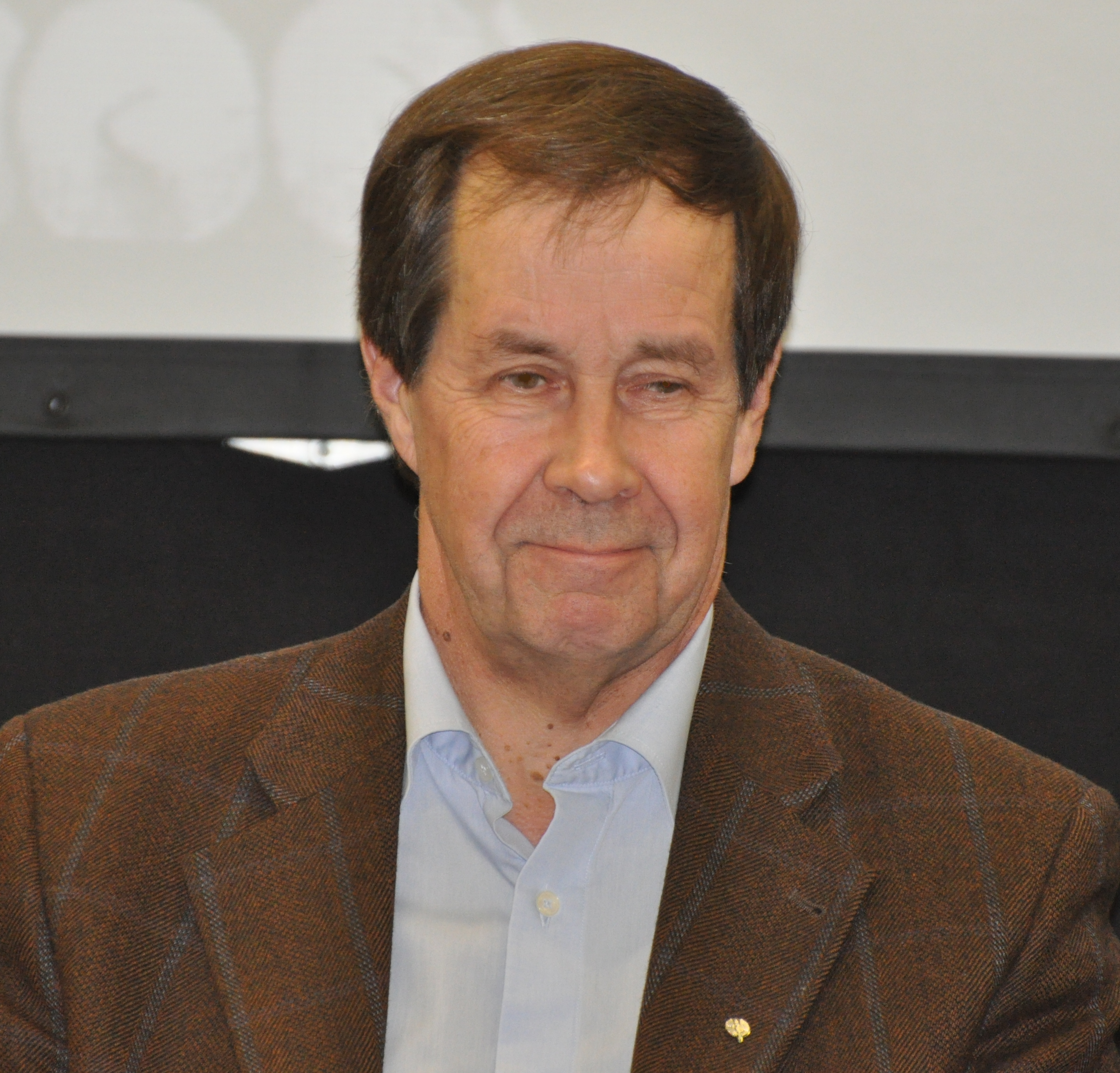 Rector of the University of Turku Keijo Virtanen at the Turku Book Fair 2010.